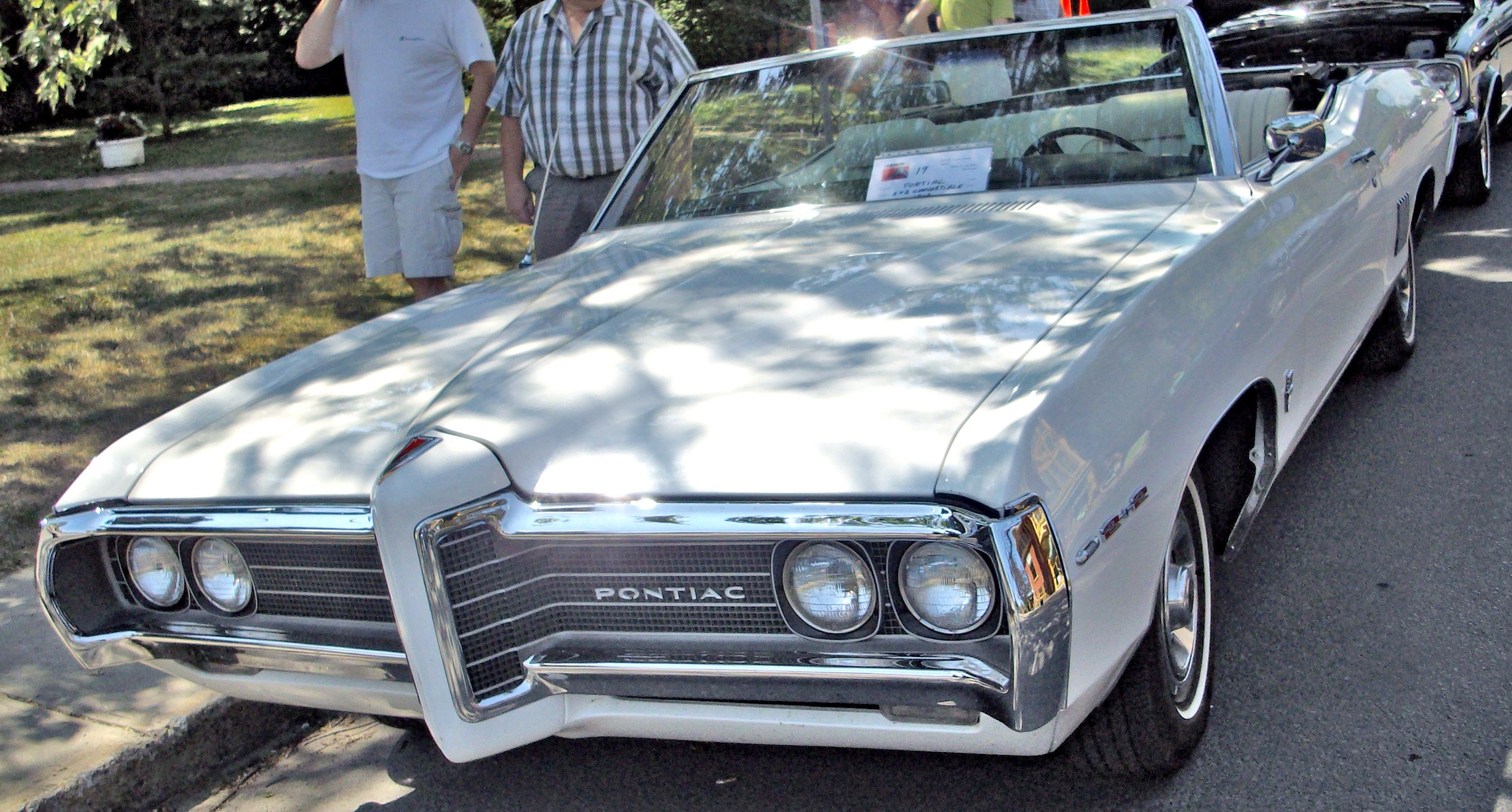 Pontiac 2+2 photographed in Hudson, Quebec, Canada at Auto classique Hudson.